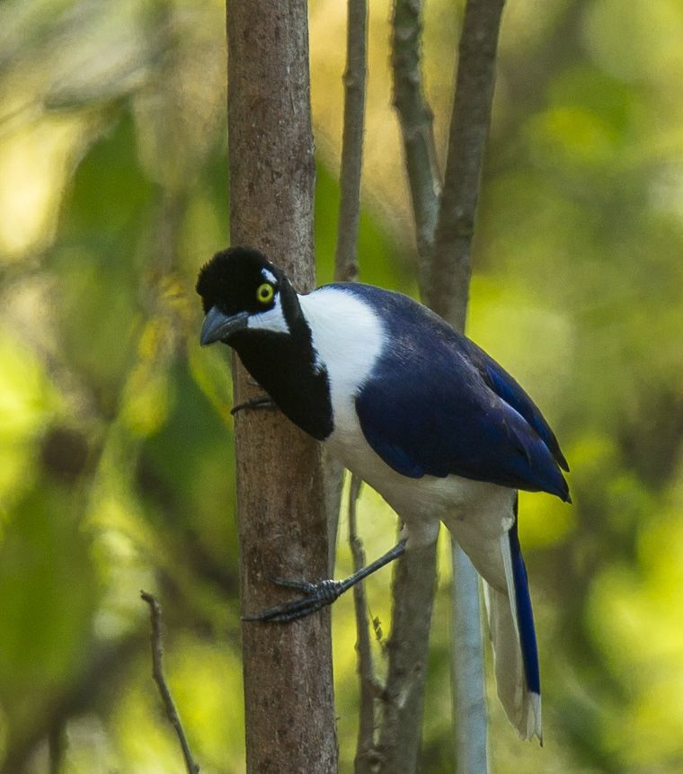 White-tailed Jay (Cyanocorax mystacalis), south Ecuador